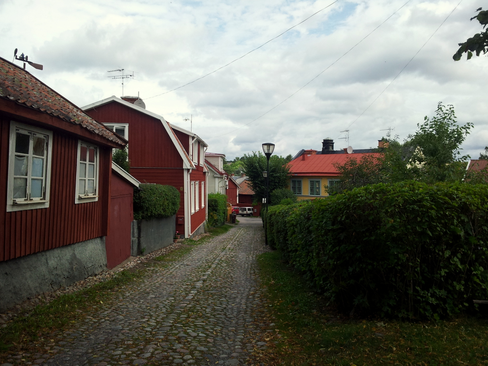 S:t Olofs gränd. View towards Lilla gatan in Torshälla's old town.